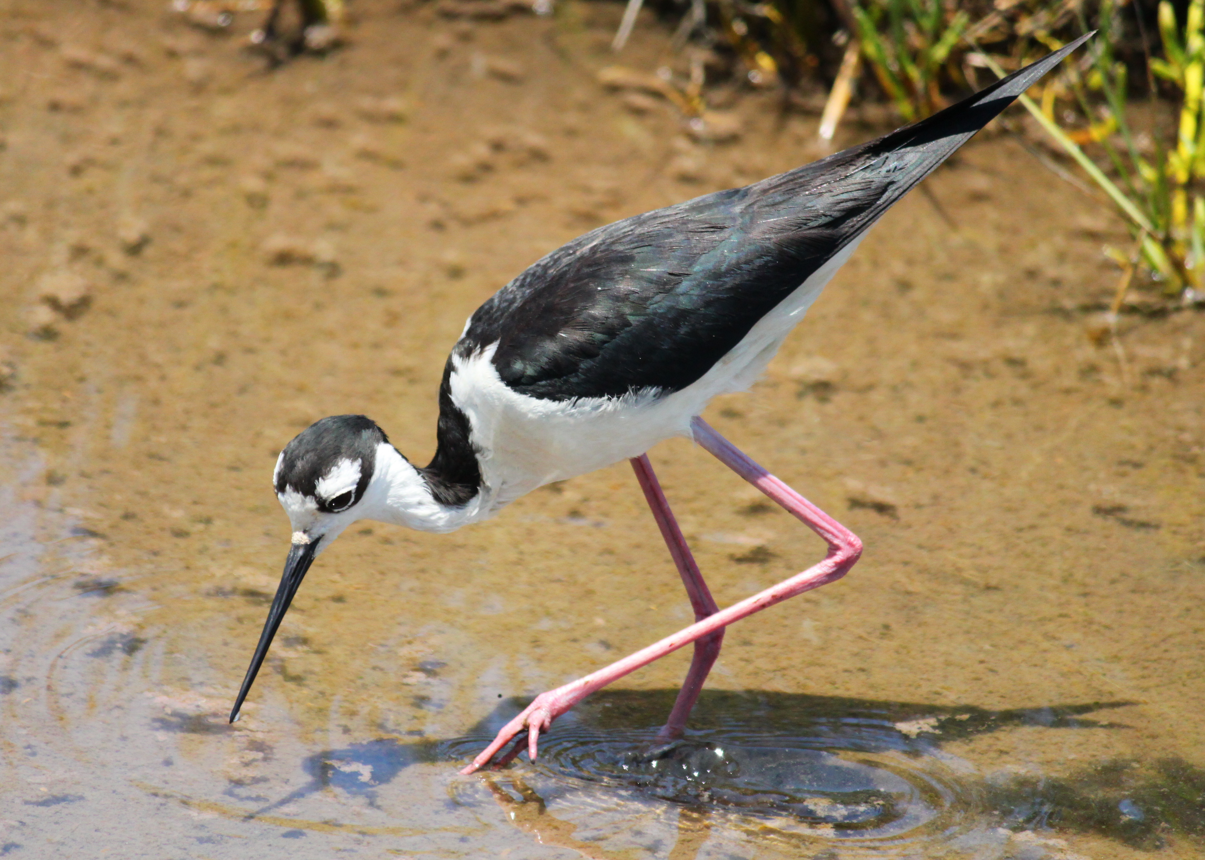 A Black-necked Stilt at the Bolsa Chica Conservancy near Huntington Beach, California, USA